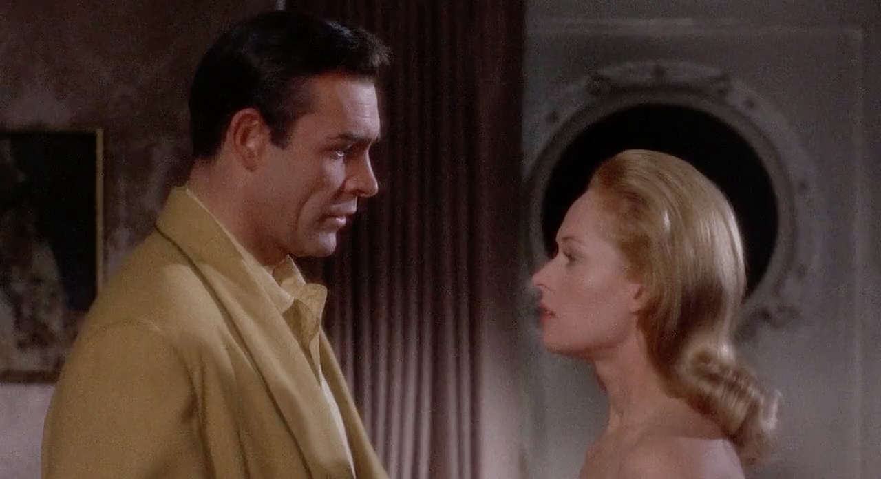 Tippi Hedren and Sean Connery in Hitchcock's "Marnie" trailer.